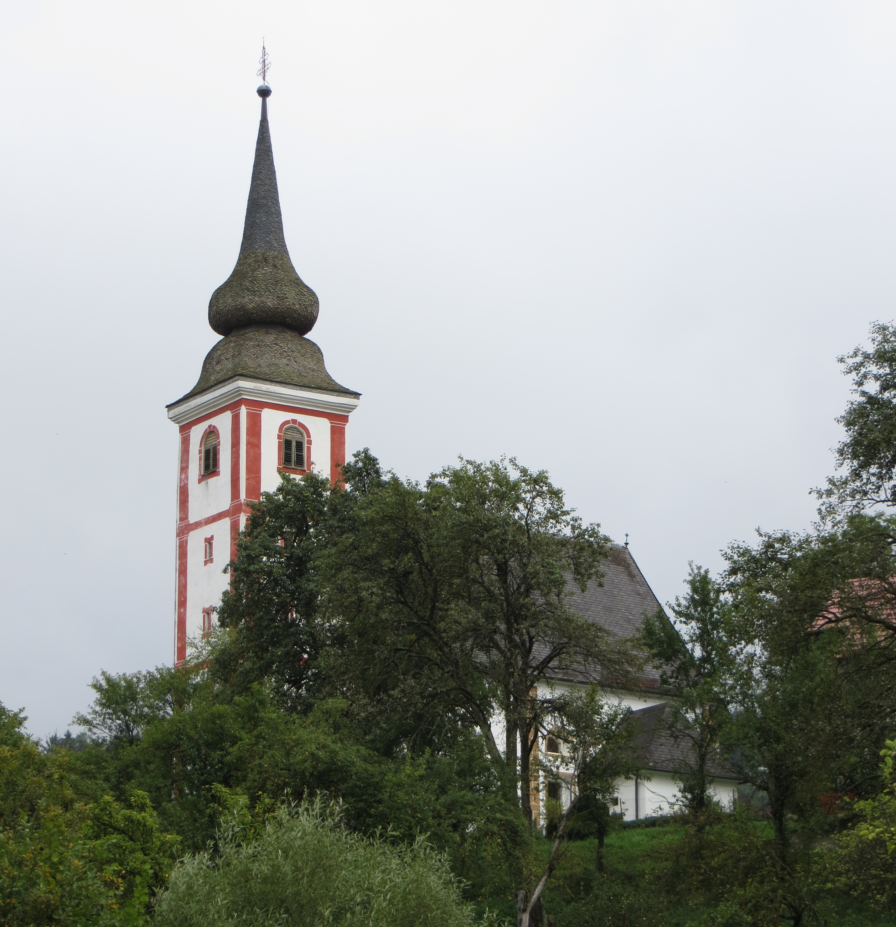 Saint Leonard's Church in Mislinja, Municipality of Mislinja, Slovenia